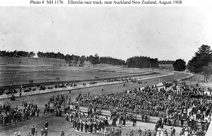 Photo #: NH 1176 Ellerslie Race Track, Auckland, New Zealand Scene during a visit to the track by "Great White Fleet" officers, August 1908.